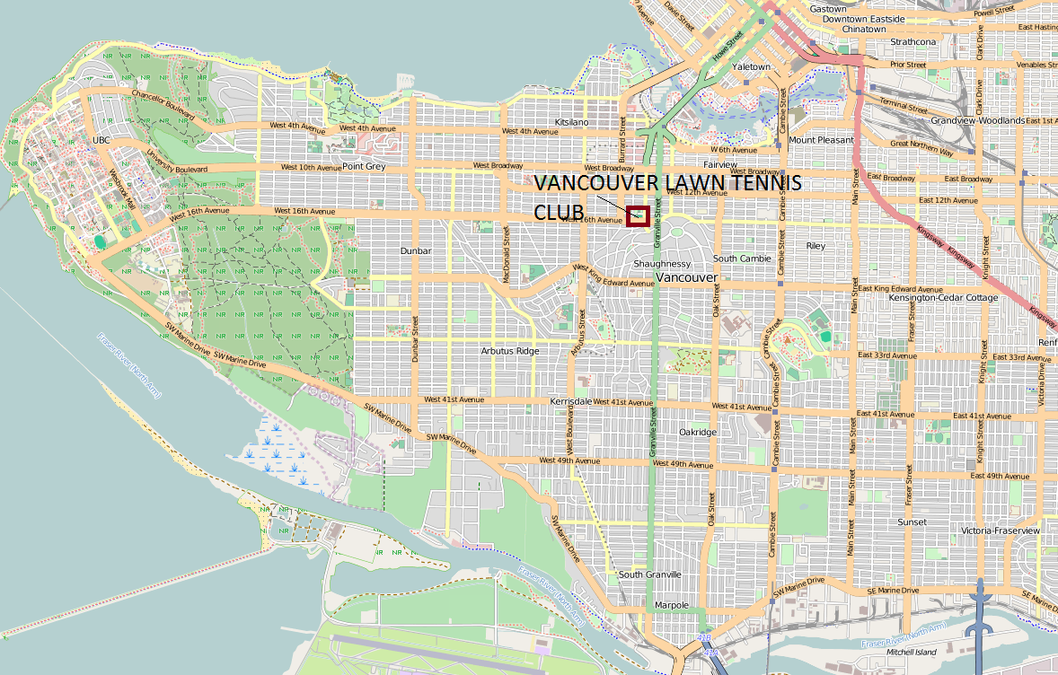 Vancouver Lawn Tennis Club location